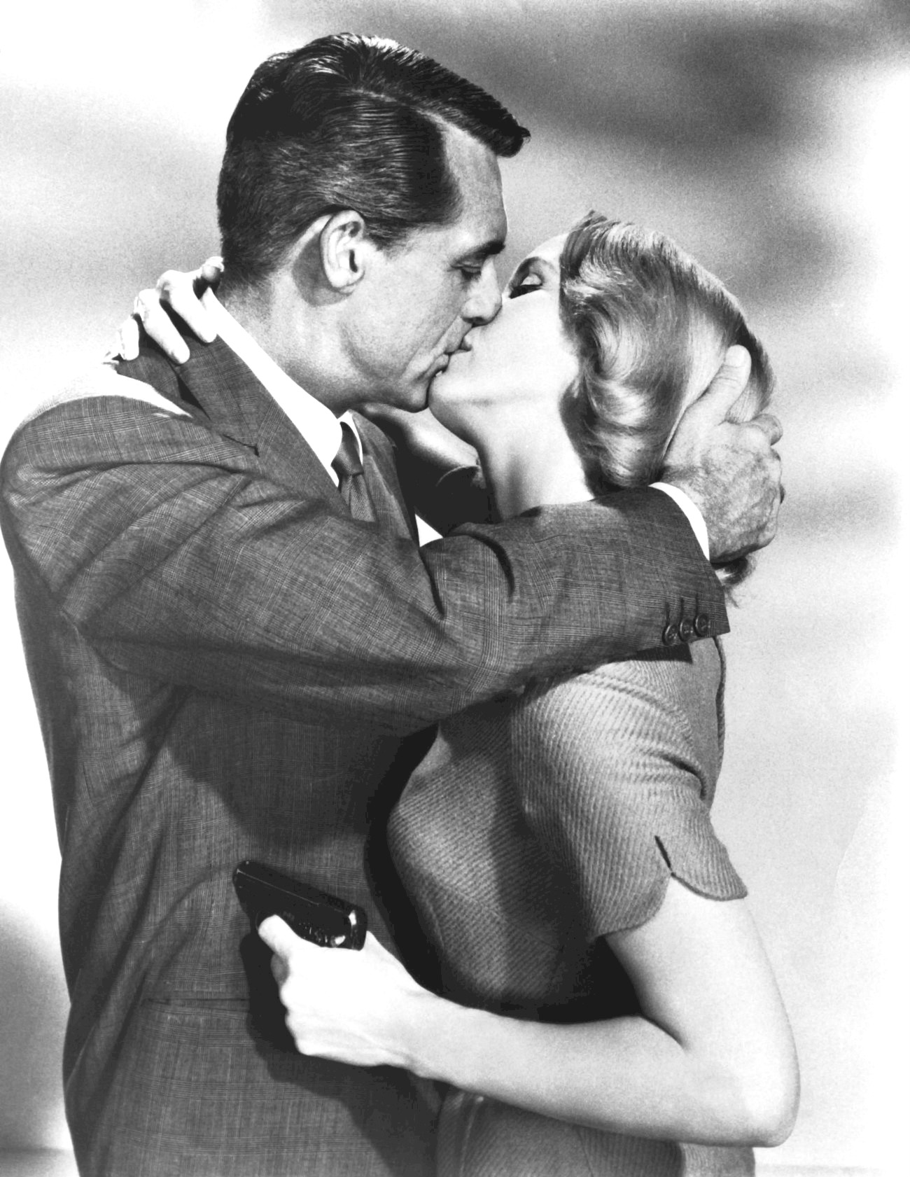 Photo of Cary Grant and Eva Marie Saint from the film North by Northwest from the trade magazine Motion Picture Daily. Note that the uploaded photo is larger and of better quality than the magazine photo. A renewal search was done at for the title "Motion Picture Daily". There were no listings for the title. There's no evidence of continuing copyright for the magazine.